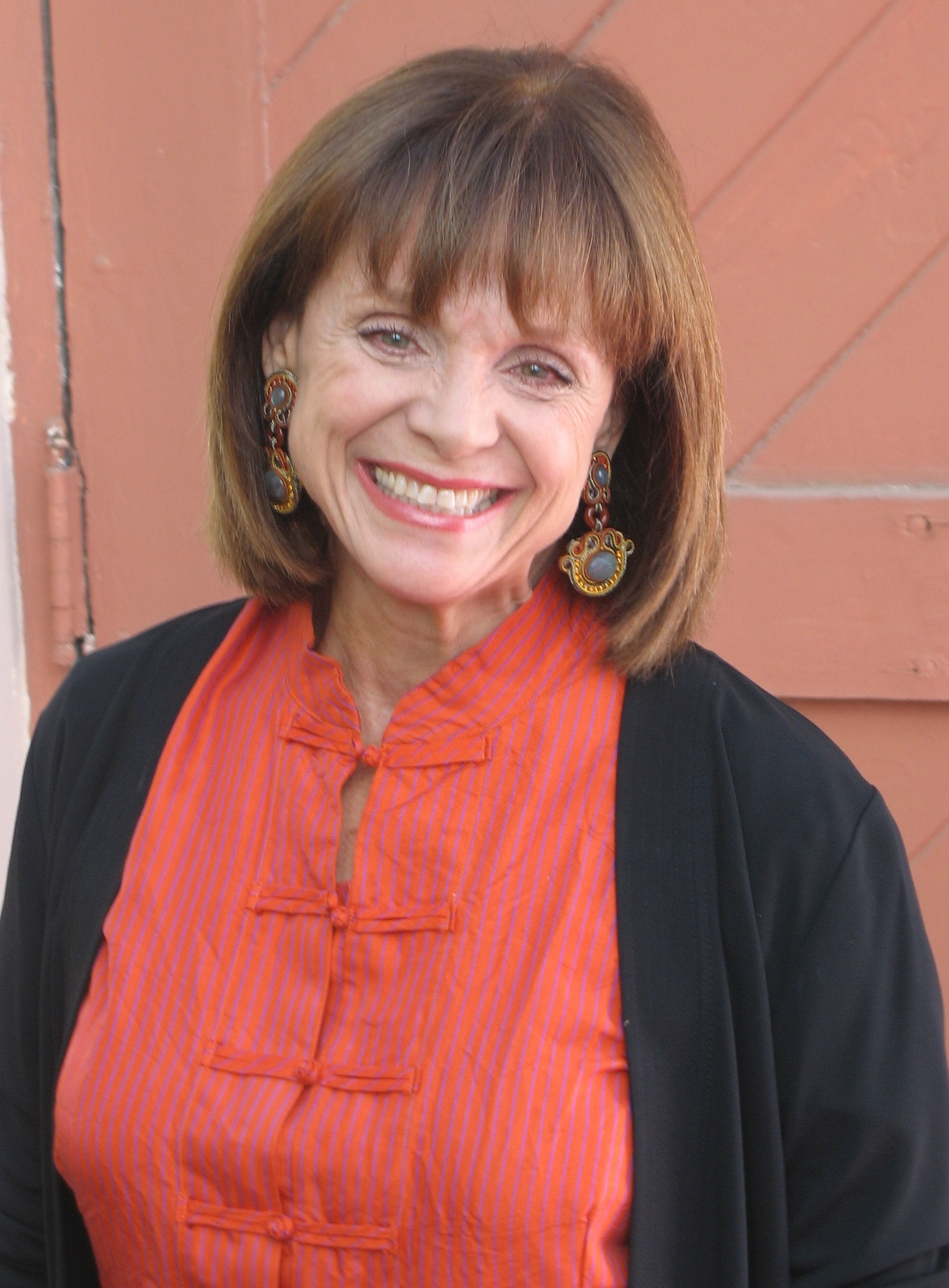 Valerie Harper at the Screen Actors Guild Foundation brunch, January 7, 2007. Taken by Maggiejumps.